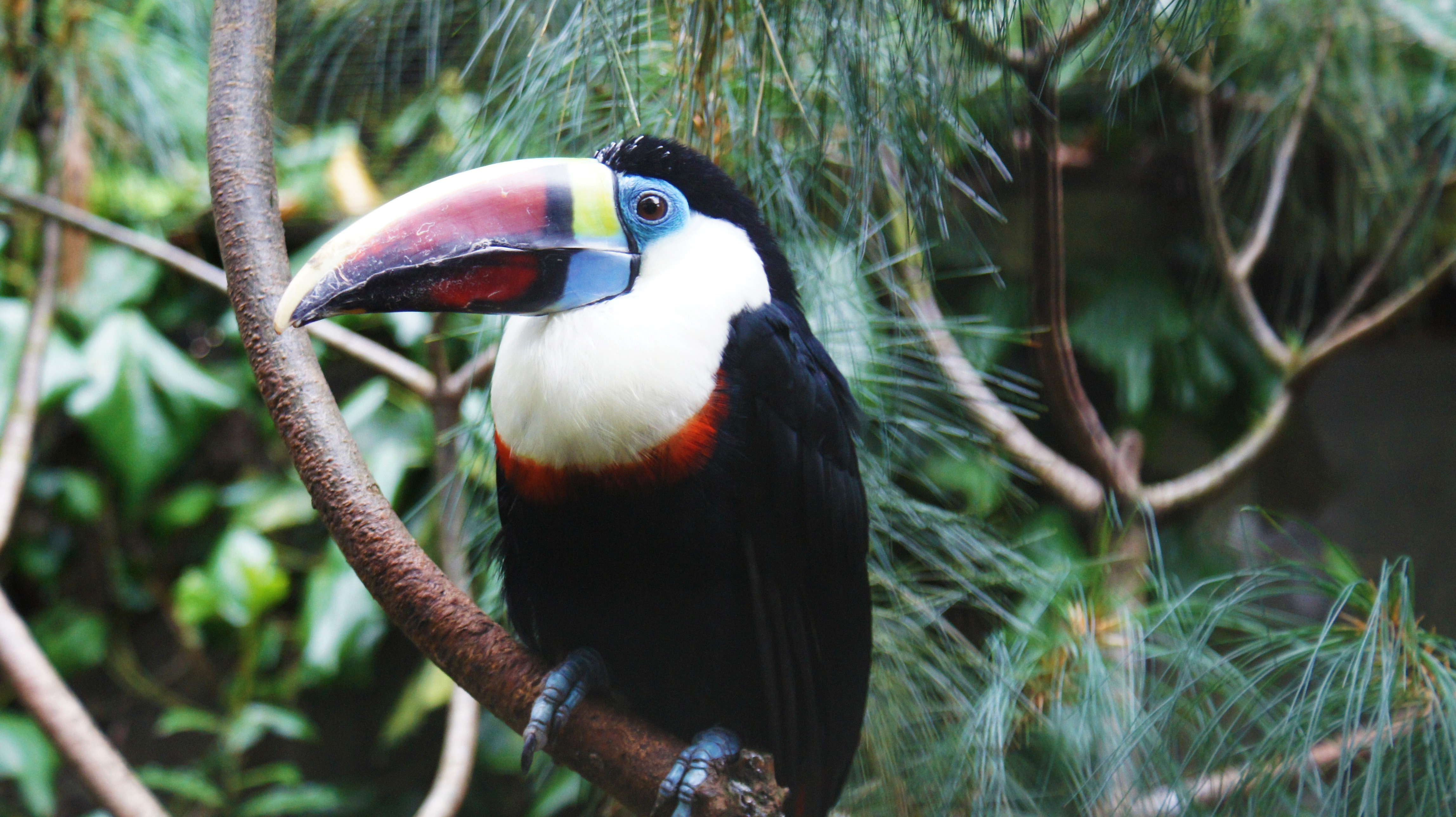 Red-billed toucan (Ramphastos t. tucanus) at Birdworld Zoo Also known as the white throated toucan